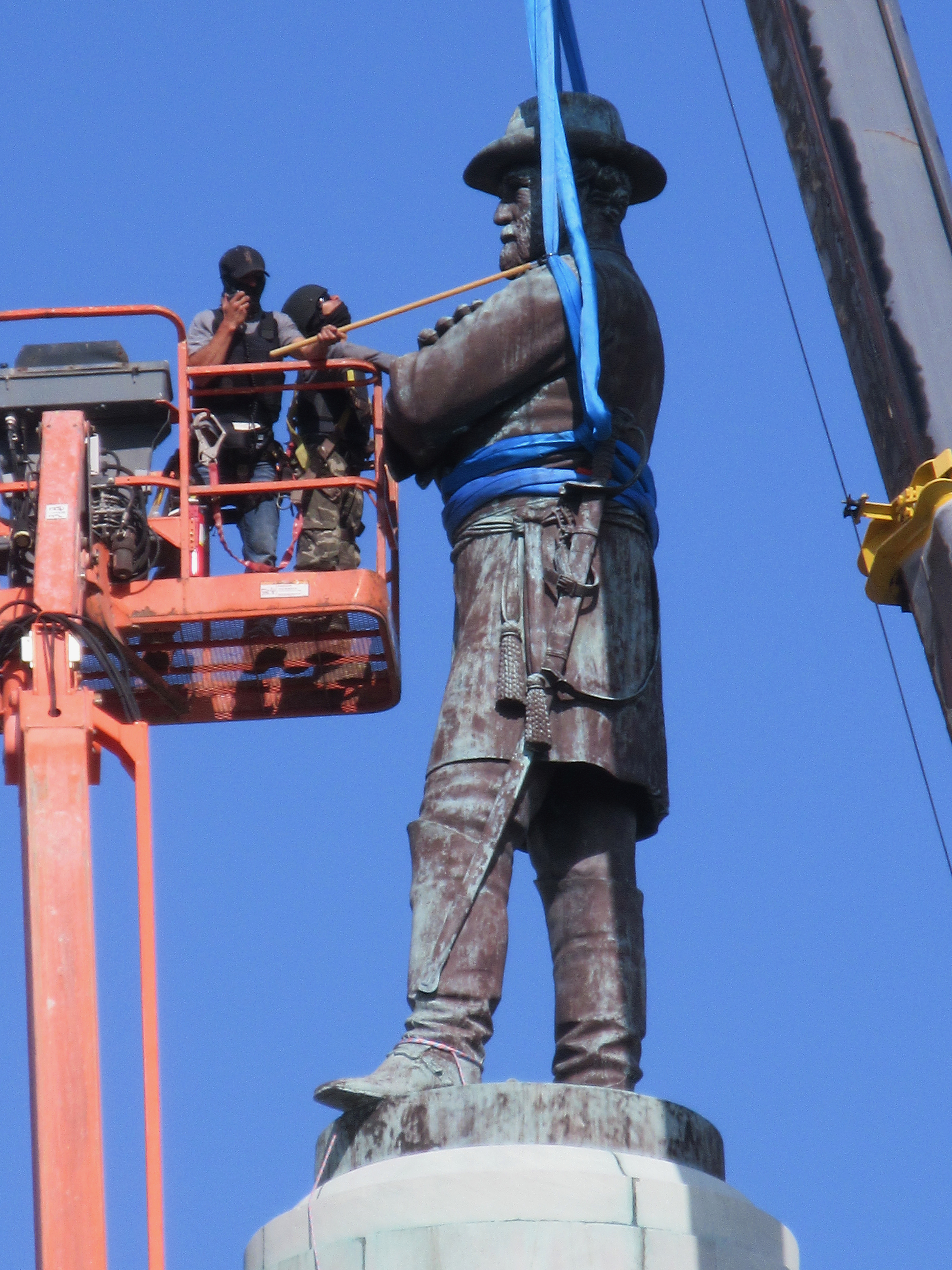 New Orleans. Workers securing straps to the Robert E Lee statue at Lee Circle prior to it being removed from atop the column. Photographed from Howard Avenue side by Infrogmation of New Orleans, 19 May, 2017.